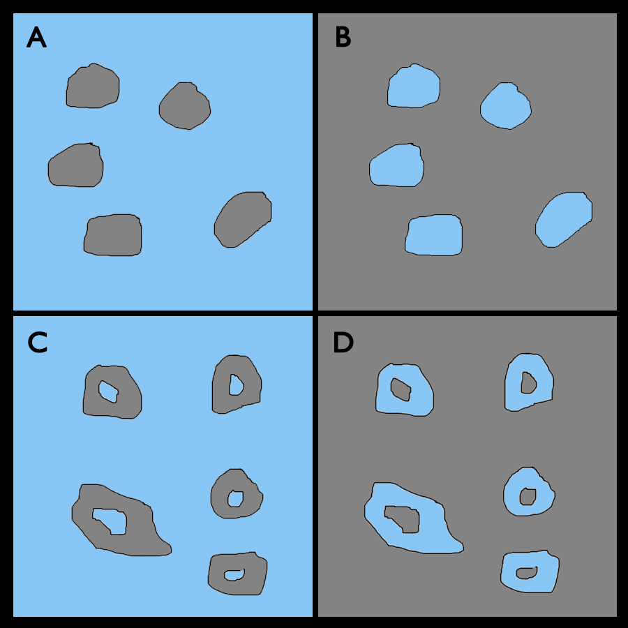 Macroemulsion